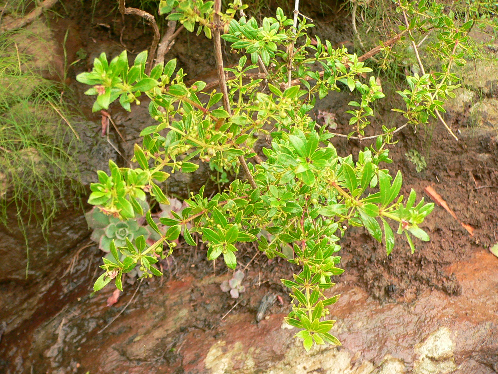 Rubia fruticosa Seen growing on another plant, on the rocky area by a small barranco. See detail See where the photo was taken at Yuan.CC Maps.